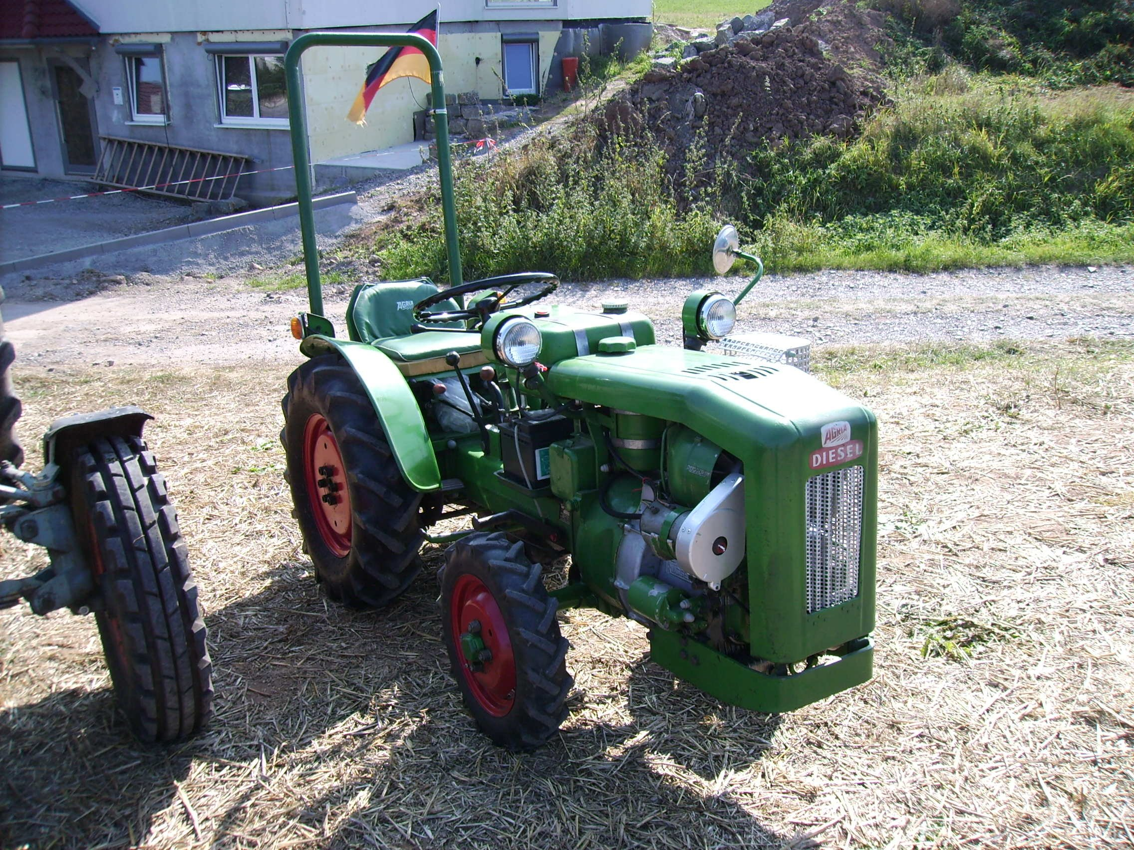 Agria 4800, 10 HP